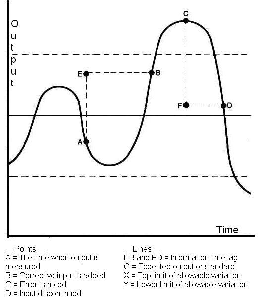 Graph according to the book "Management, systems, and society: an introduction" by Richard Arvid Johnson